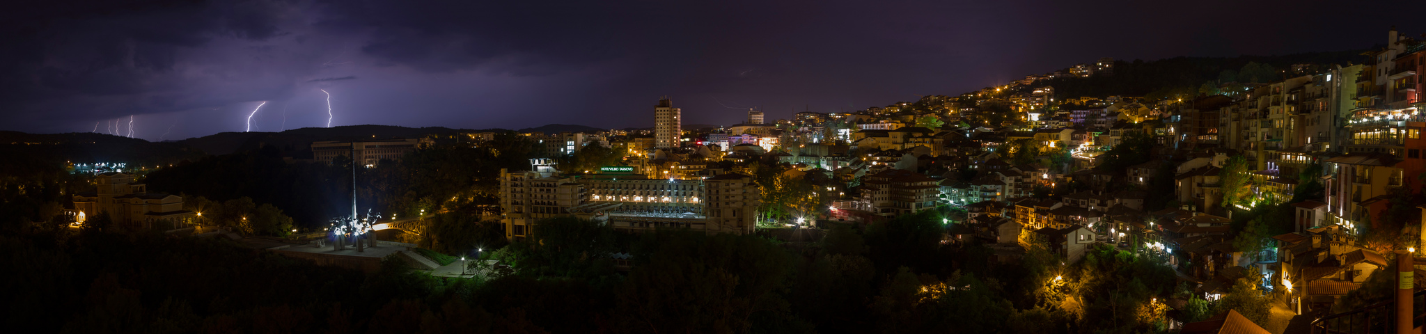 Storm, Night, Downtown Veliko Tarnovo